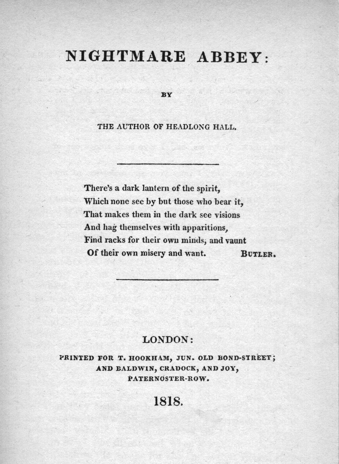 Title page of original edition of Nightmare Abbey (1818)